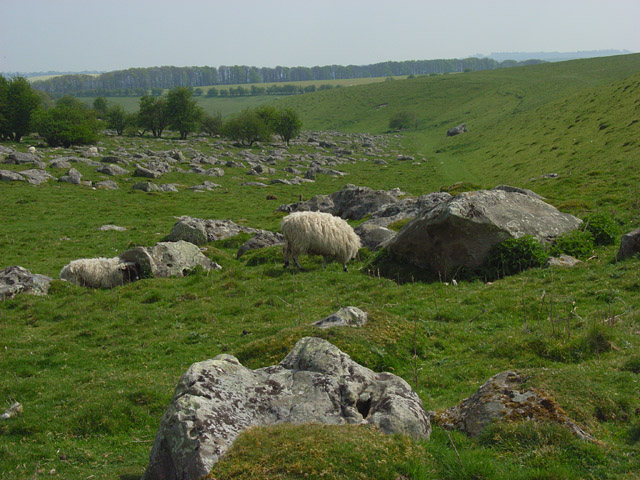 Sarsen stones, Fyfield Down This area seems to have Marlborough Down's densest concentration of the sandstone rocks. It's part of an English Nature nature reserve. The rocks provide a habitat for lichen and mosses. There are said to be 25,000 within the reserve.